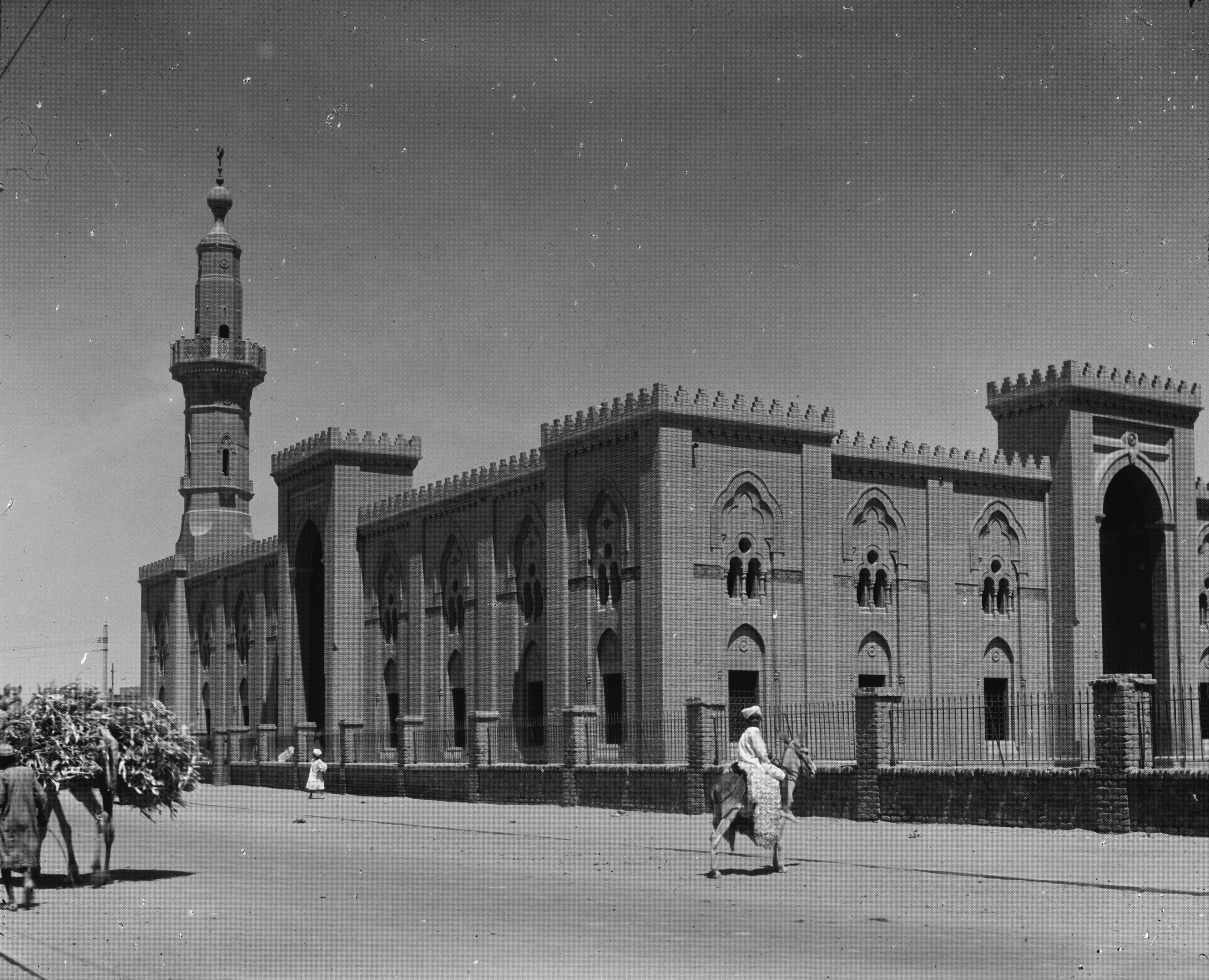 Sudan. Omdurman. The main mosque